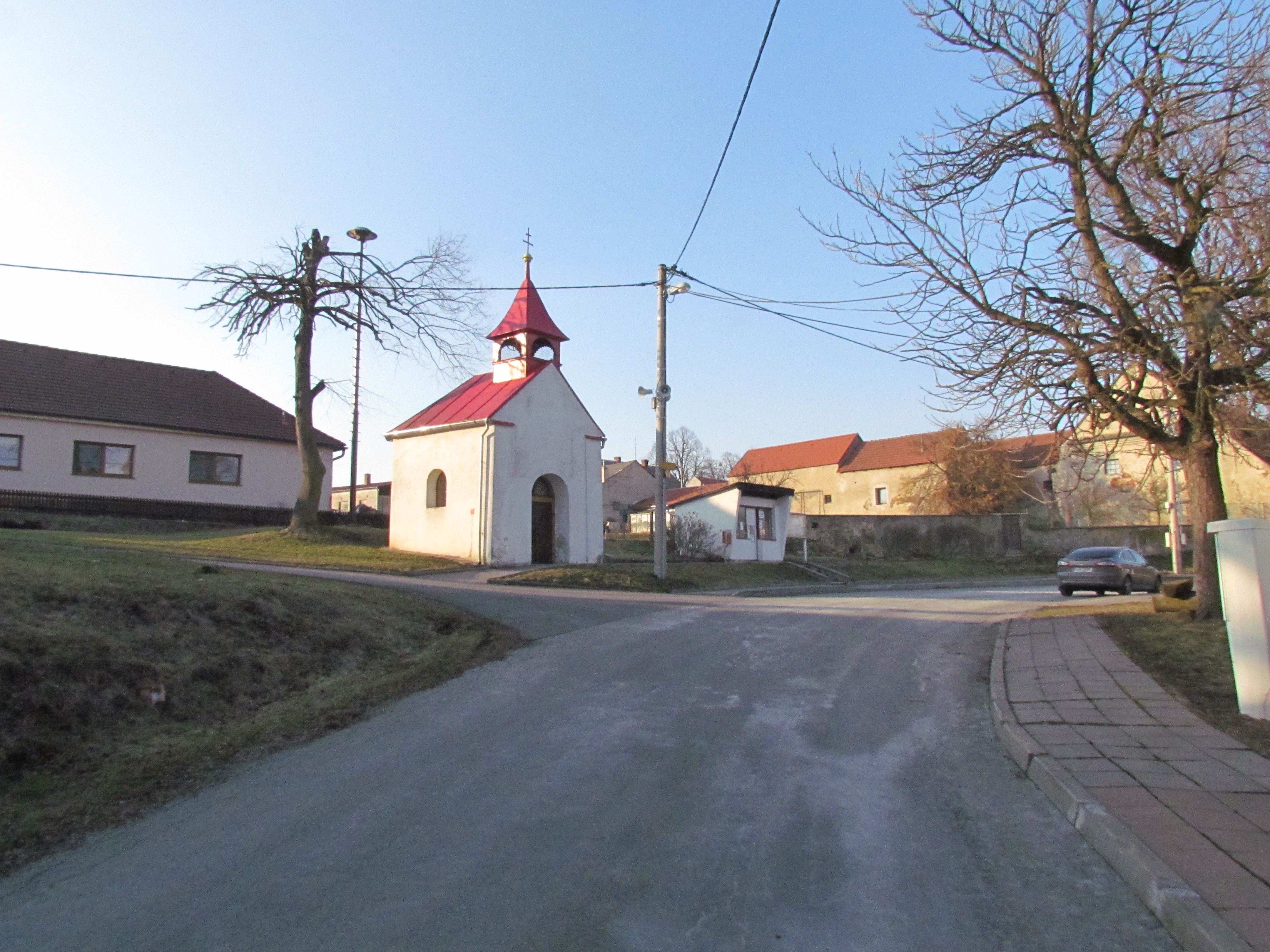 Center of Okrašovice, Slavičky, Třebíč District.